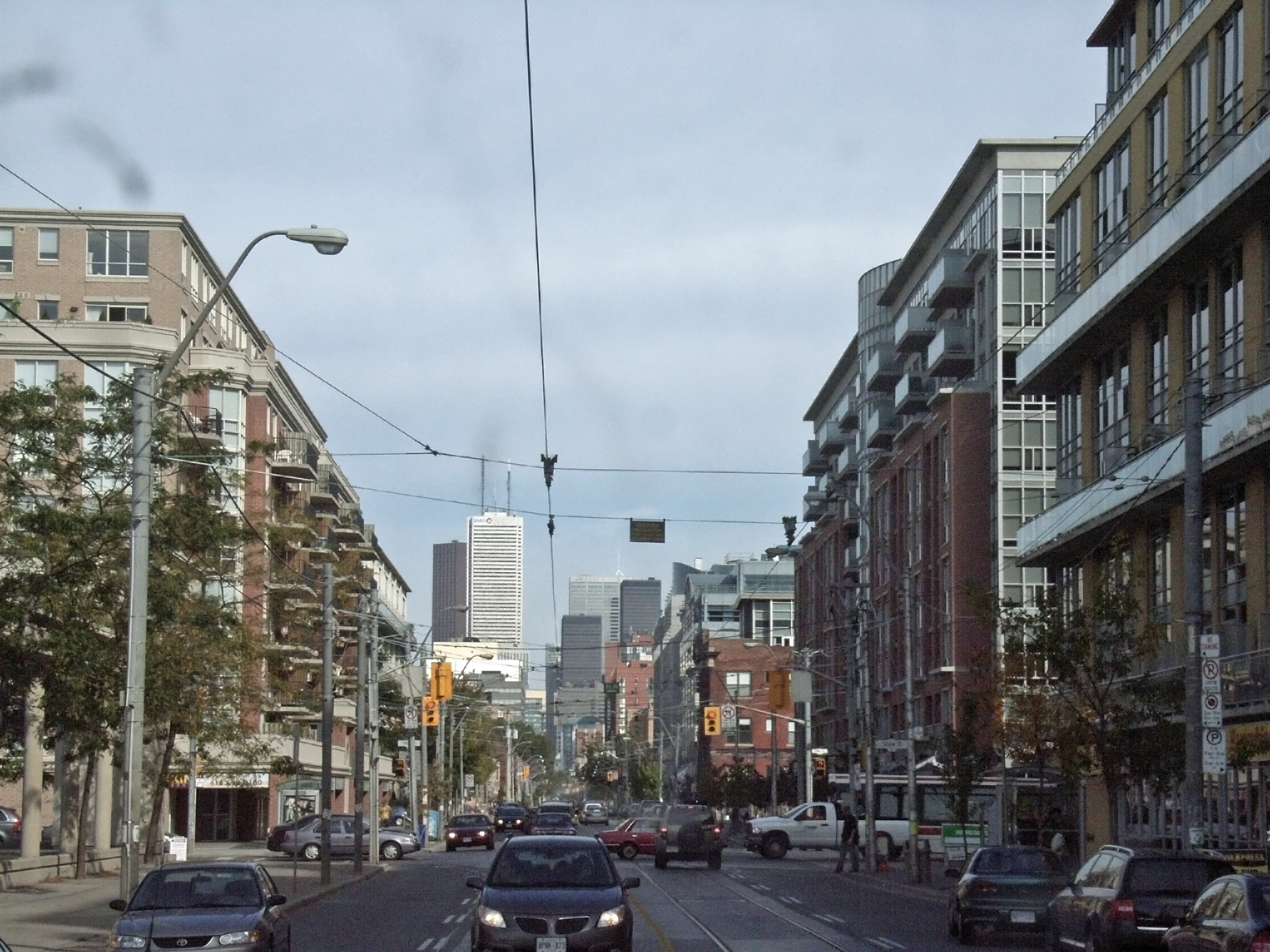 a new neighborhood of mid-rises lines King Street West around Bathurst. photo taken from back of TTC streetcar, hence dusty windows.